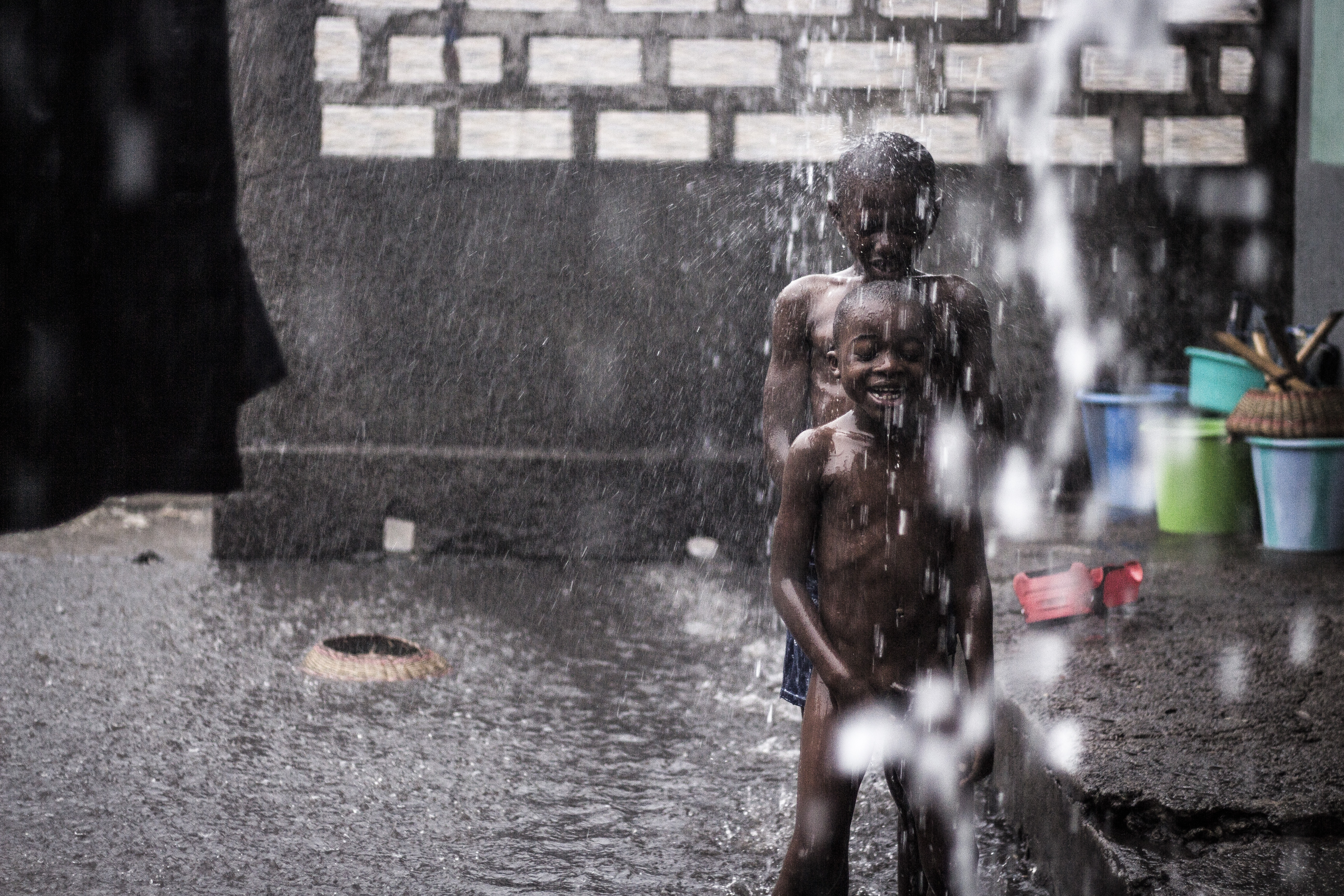 the first rain after 3 months of dry season and water shortage the children express their joy This is an image with the theme "Africa on the Move or Transport" from: Democratic Republic of the Congo